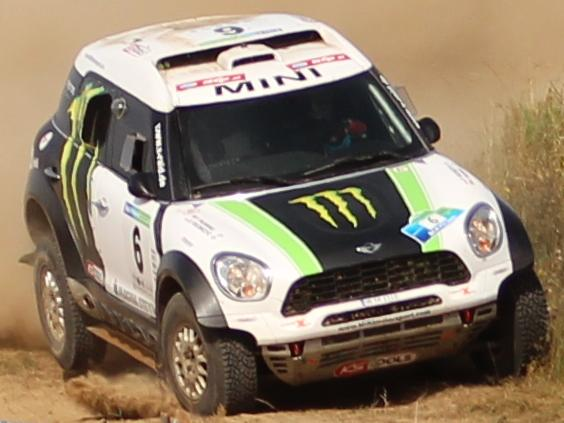 Krzysztof Hołowczyc (driver, POL), Filipe Palmeiro (co-driver, POR), Mini Countryman All4 Racing, Monster Energy X-Raid Team, Baja Poland 2012